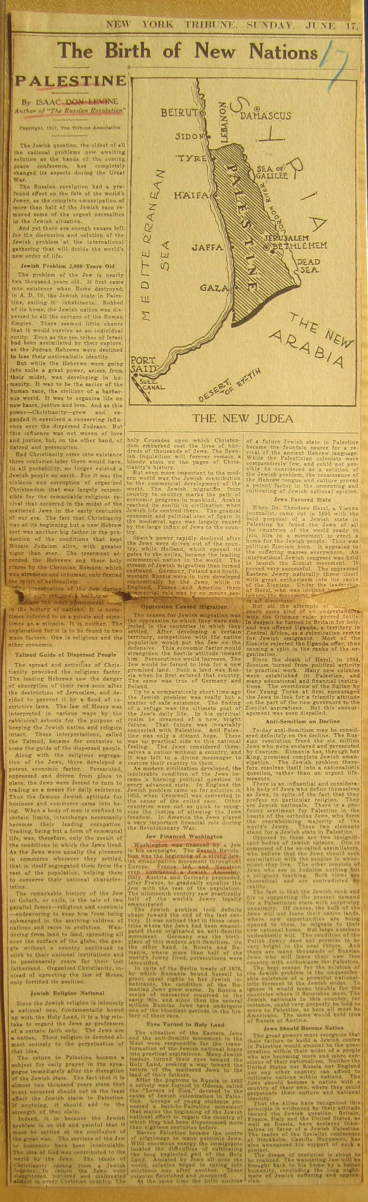 A very interesting article from the New York Tribune on June 17, 1917, announcing the a new nation to be carved out of the Ottoman Empire called Palestine.